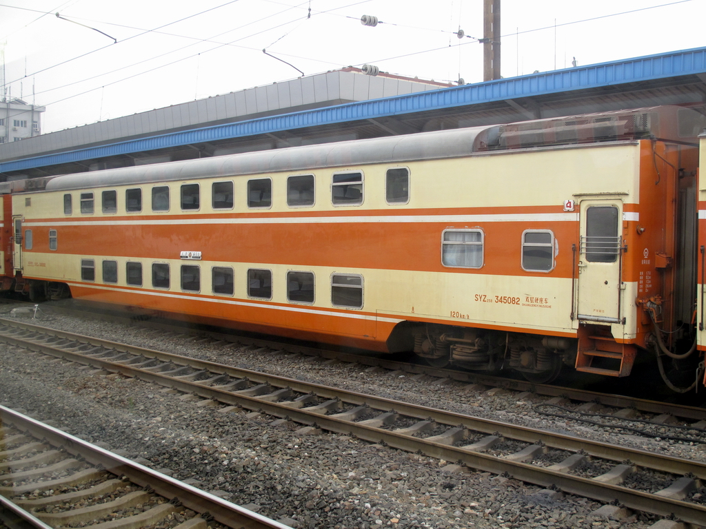 China Railways 25B passenger coach number SYZ25B 345082 at Qinhuangdao Railway Station, Qinhuangdao, Hebei, China.